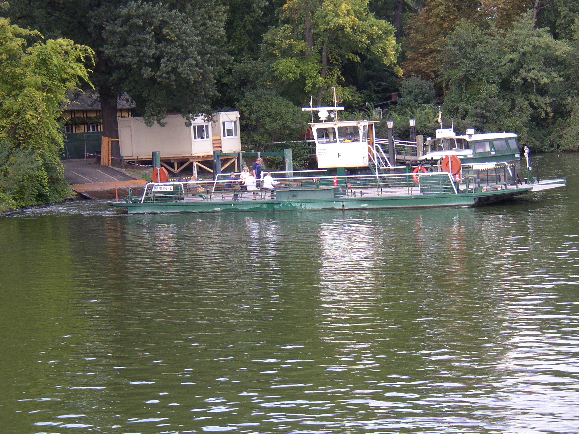 Ferry to Peacockisland in Berlin, Germany